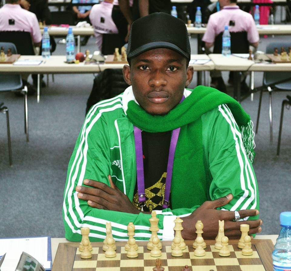 Daniel Anwuli representing Nigeria at the World chess Olympiad in Baku, Azerbaijan 2016